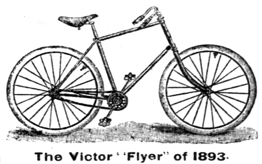 The Victor "flyer" of 1893. Illustration from The Farmer's Vindicator, 29 July 1893.